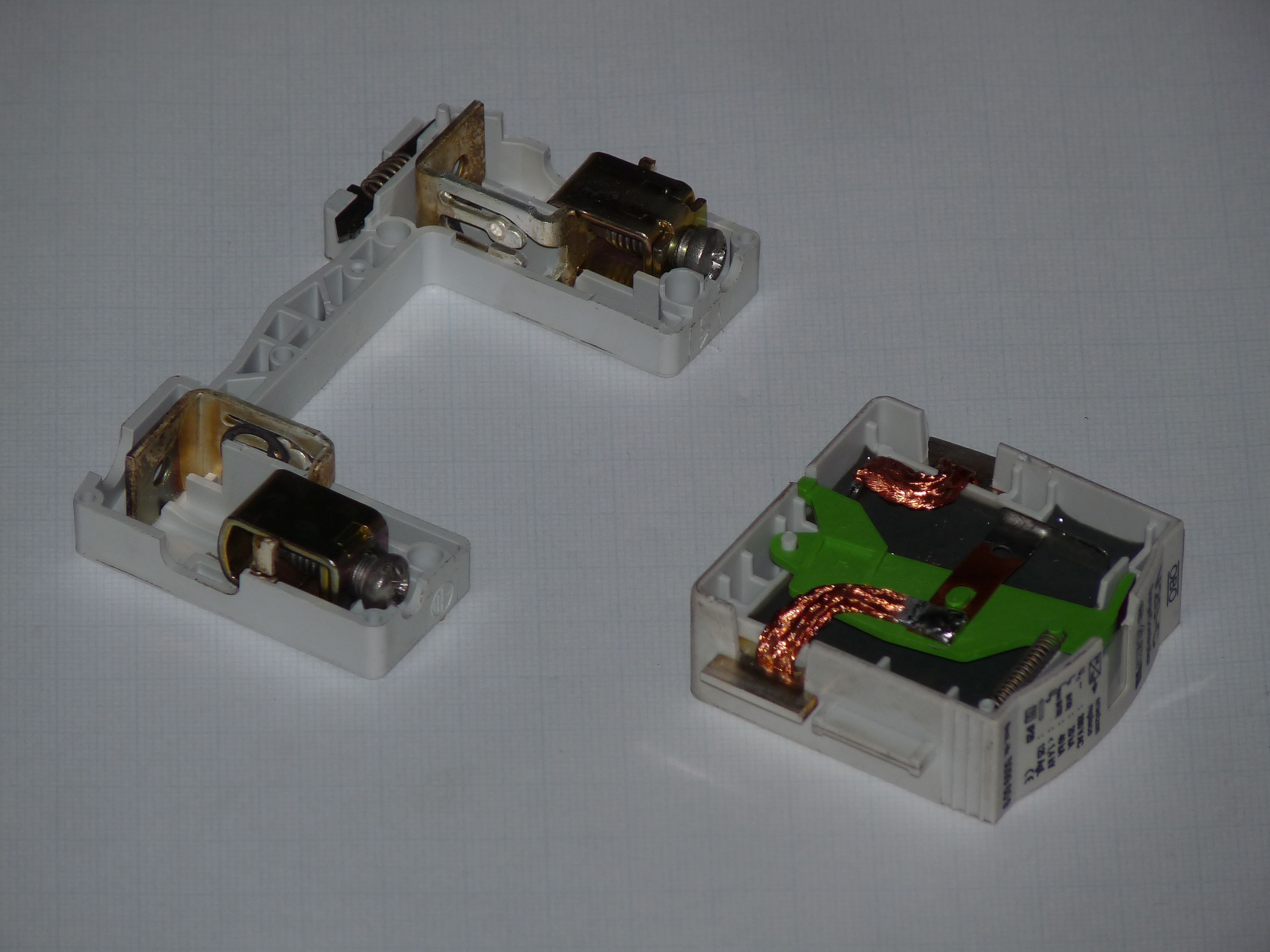 Surge arrester, 1.4kV.